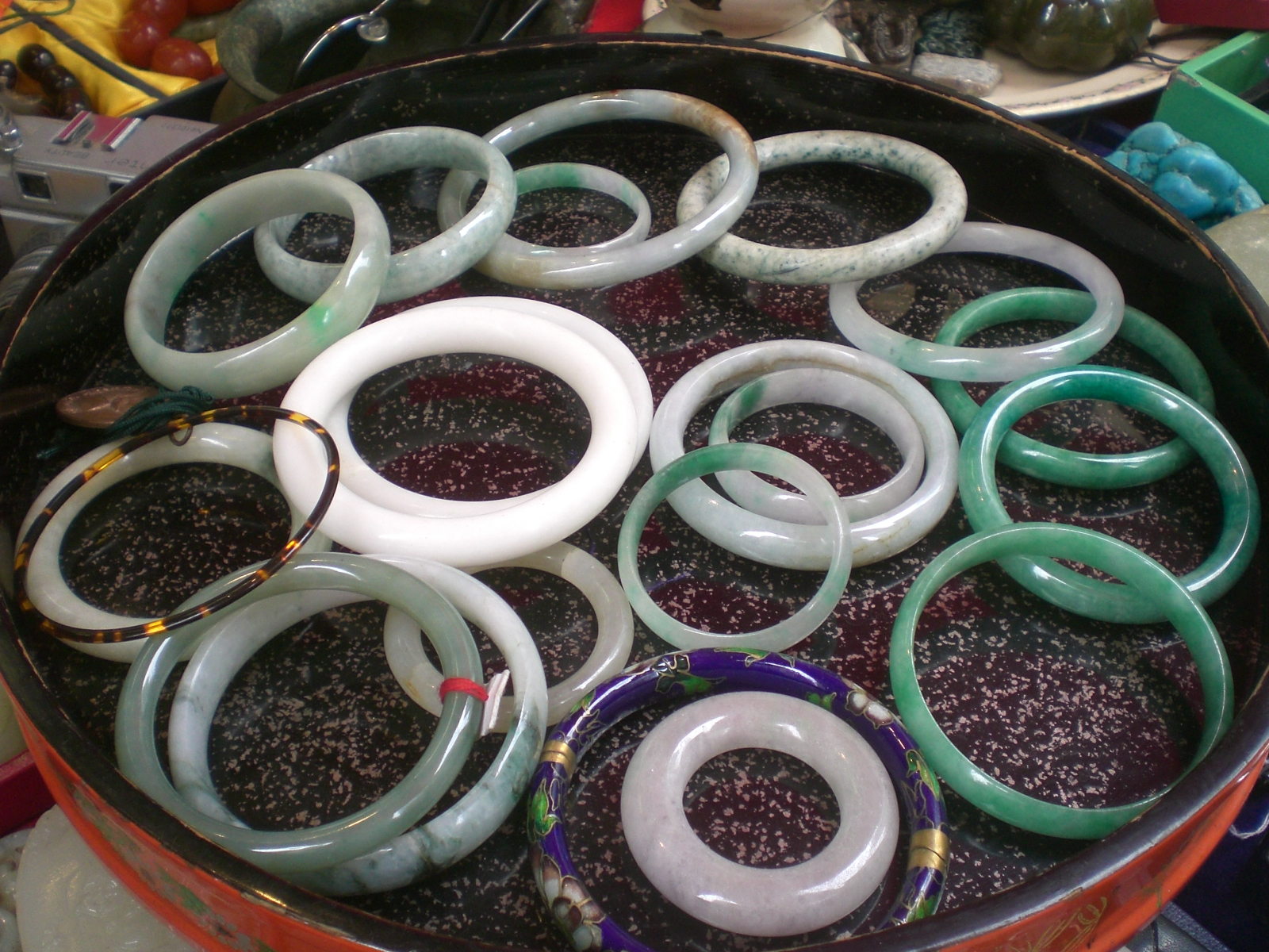 上環摩羅上街, Cat Street, Hong Kong. 二手市場 手鐲